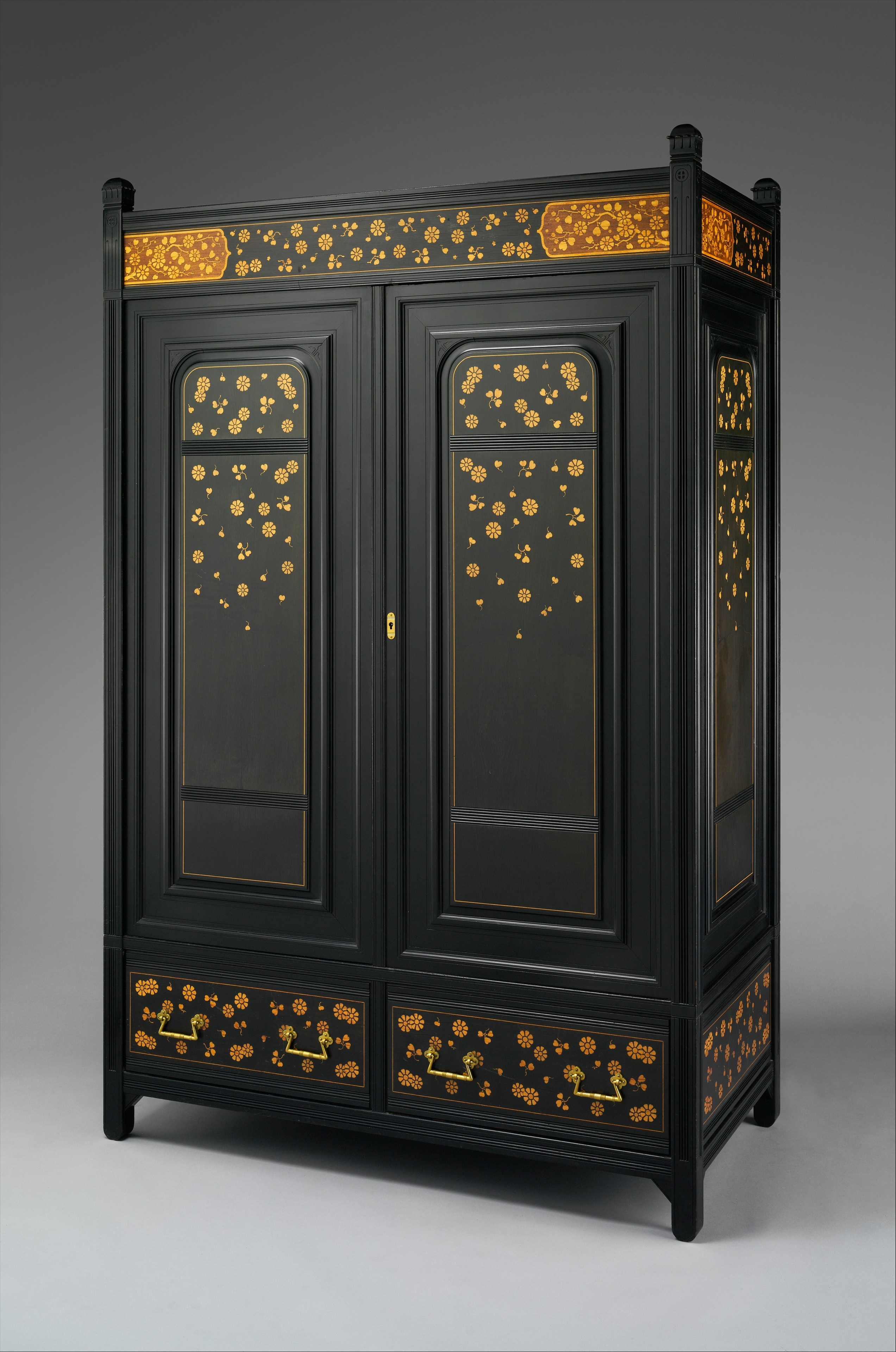 American; Wardrobe; Furniture